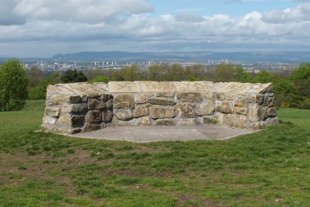 Cathkin Braes Country Park - the viewpoint. From this spot, much of Glasgow is spread out before the viewer like a map. Above the left-hand edge of the viewpoint, a little horn can be seen on the horizon, marking the peaks of Dumgoyne (578660) and Dumfoyn. From there, the line of the Campsie Hills stretches towards the right of the photo.